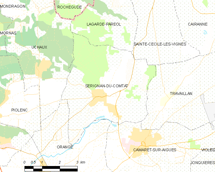 Map of French municipality Sérignan-du-Comtat